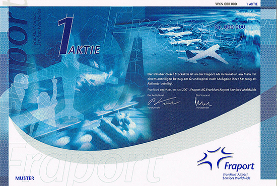 Share of Fraport AG (Specimen)